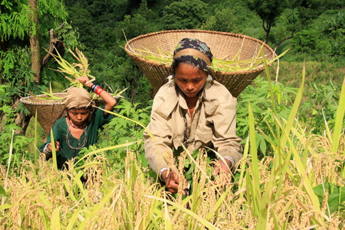 Mru who live top of the hill,when the time comes to collecting paddy from hills they goes to hill & collect the paddy.Most of time it is long long distance from where they live